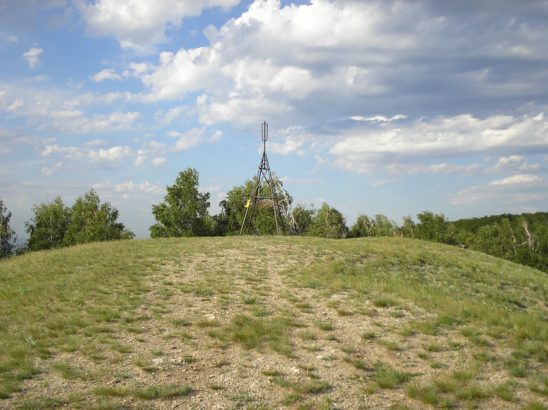 Pik pionerov, Kumysnaya Polyana, Saratov, Russia.